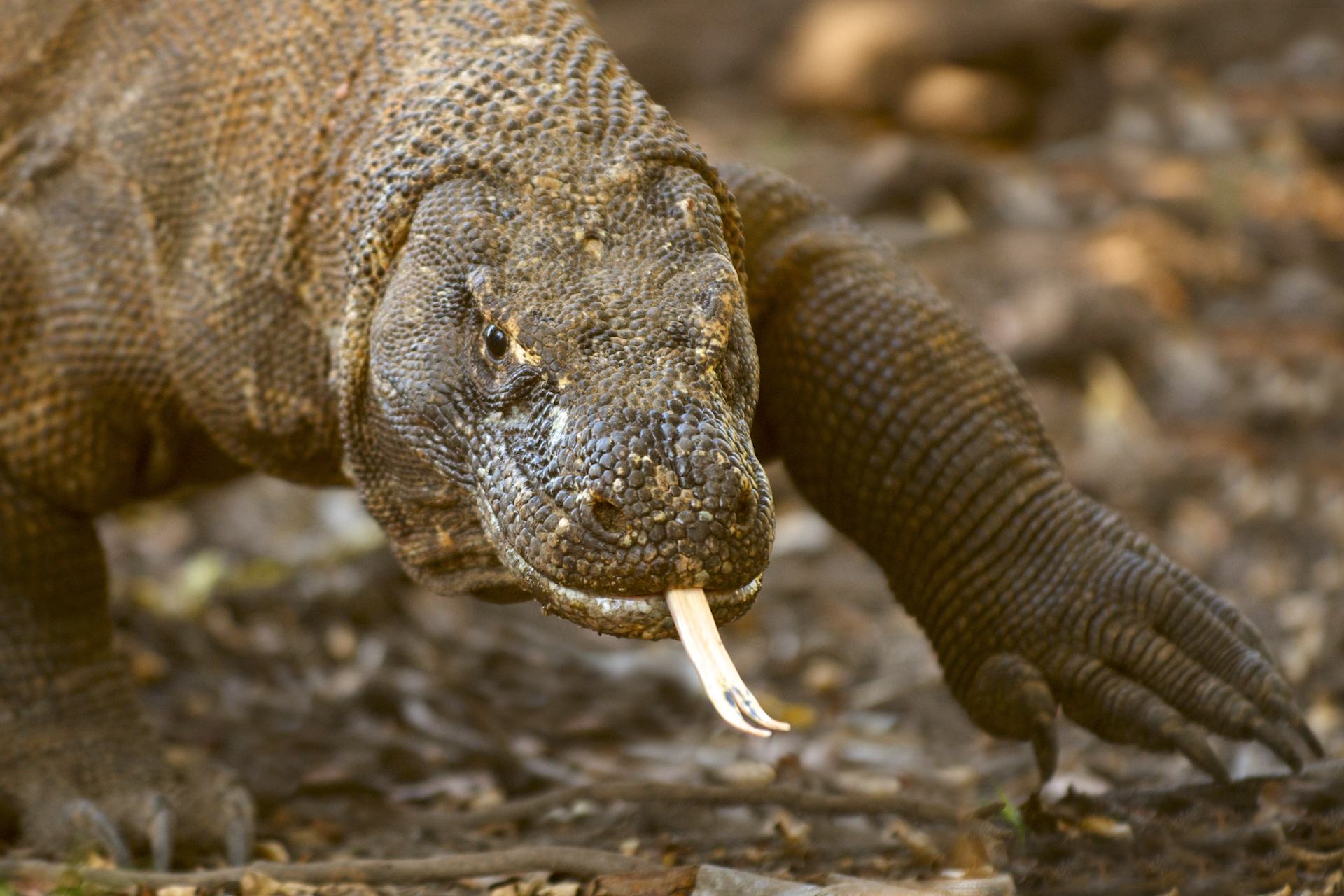 Frontal Portrait of a Komodo Dragon